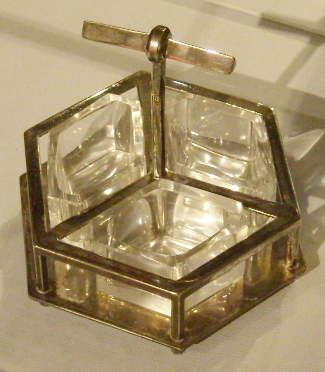 A silver plated cruet set designed by Christopher Dresser and made in 1878 by Hukin andd Heath of Birmingham. On display at The Higgins museum and gallery, Bedford.